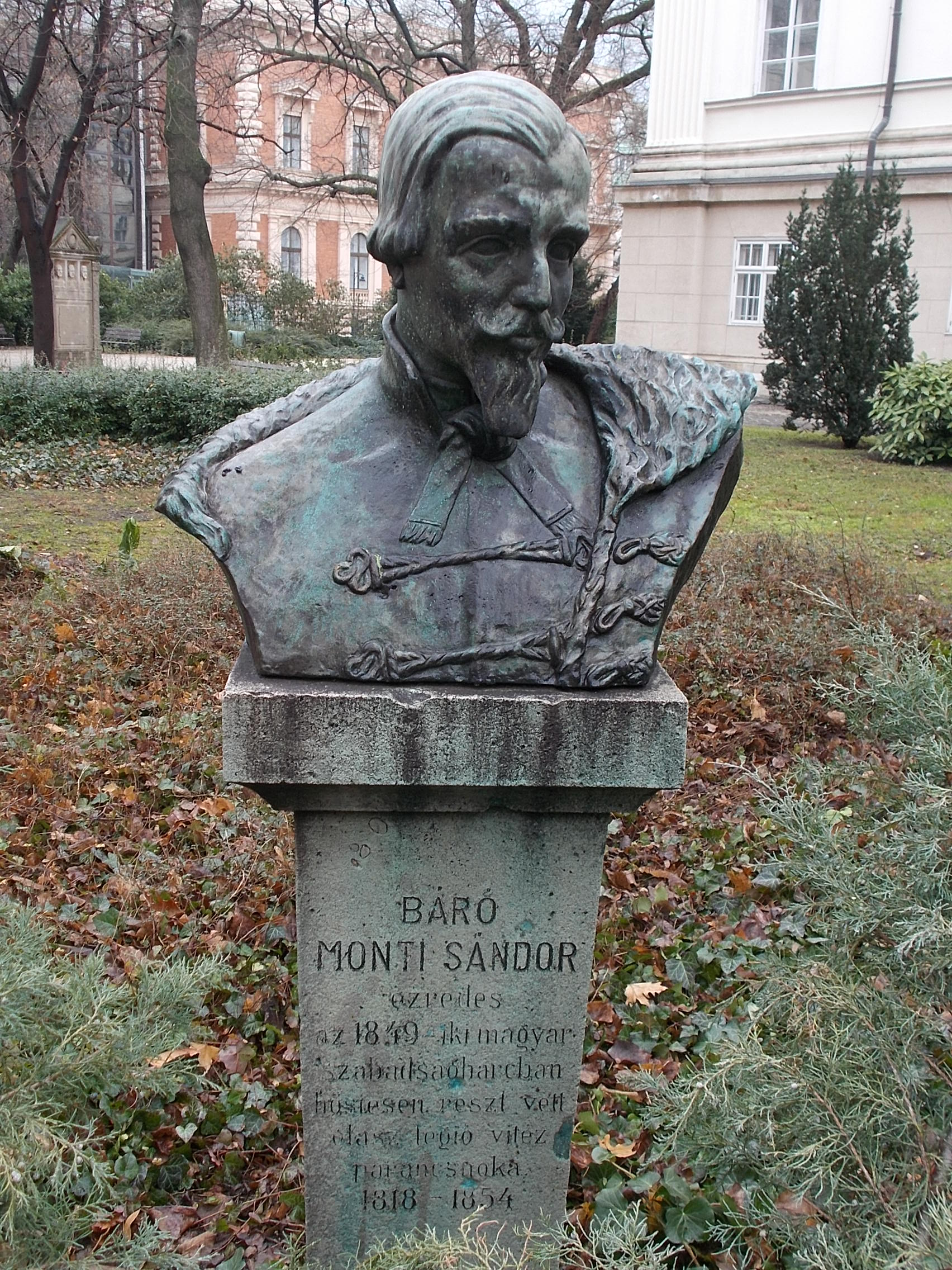 Bust of Colonel Baron Alessandro Monti (1931, Bronze, copy, the original located in Brescia, Italy) in the Garden of the Hungarian National Museum. - Múzeum Blvd., Palotanegyed neighborhood, Budapest District VIII. Hungary.